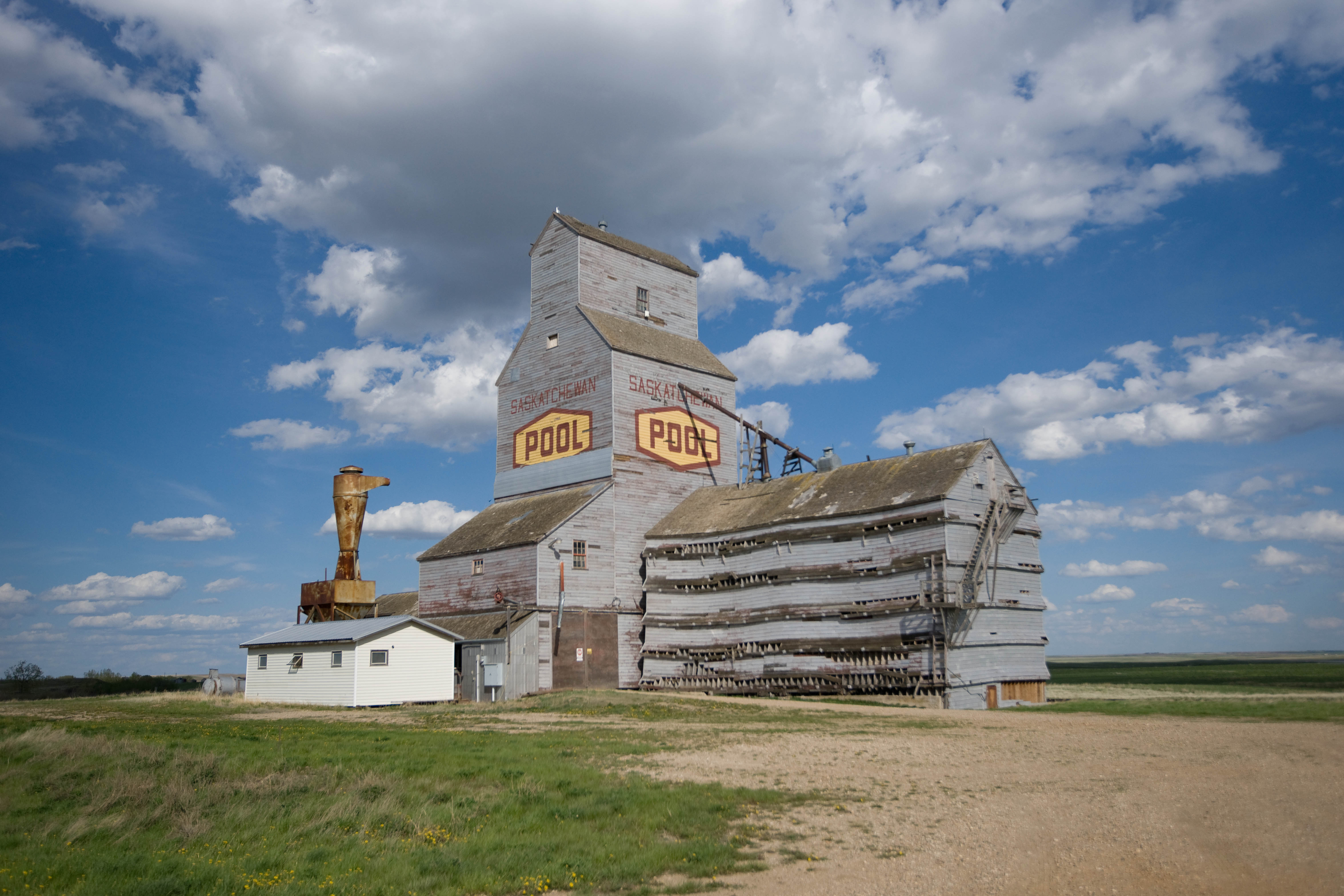 From